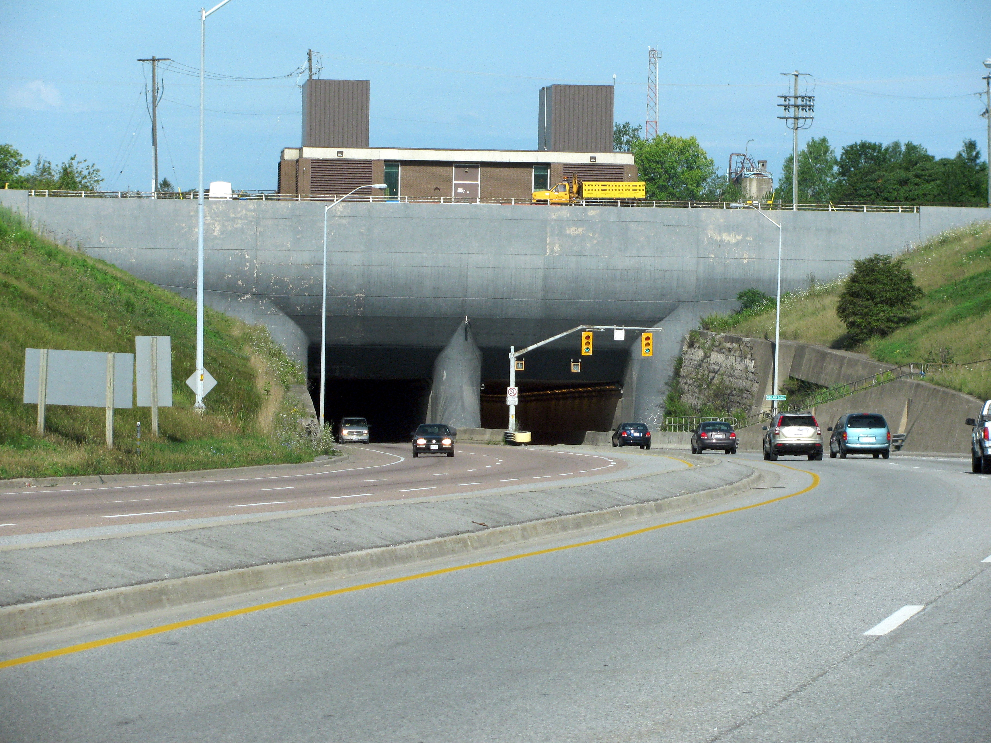 The Thorold Tunnel in August 2009.